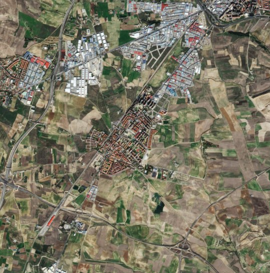 The diverse landscapes of the autonomous Community of Madrid in the heart of Spain are evident in this week’s image. The community and country’s capital city is visible near the centre of the image. Zooming in, we can see the Buen Retiro park just east of the city centre with its large, artificial pond. About 3.5 km due north sits the Santiago Bernabéu football stadium. Southeast of the stadium we can see another circular structure: the Las Ventas bullfighting ring. In the upper left corner of the image is the El Pardo mountain and protected natural park, which is popular for mountain biking. The other areas surrounding Madrid are blanketed with agricultural structures. East of the city are large fields along the Jarama river, and more areas of agriculture appearing brown further east still. This image, also featured on theEarth from Space video programme, was taken by the Sentinel-2A satellite on 16 November 2015. Launched in June 2015, Sentinel-2 can map changes in land cover such as forest, crops, grassland, water surfaces and artificial cover like roads and buildings in cities. Early results from the mission on mapping changes in land cover are expected to be presented at the upcoming Living Planet Symposium, held in Prague in May. The event brings together scientists and users to present their latest findings on Earth’s environment and climate derived from satellite data.